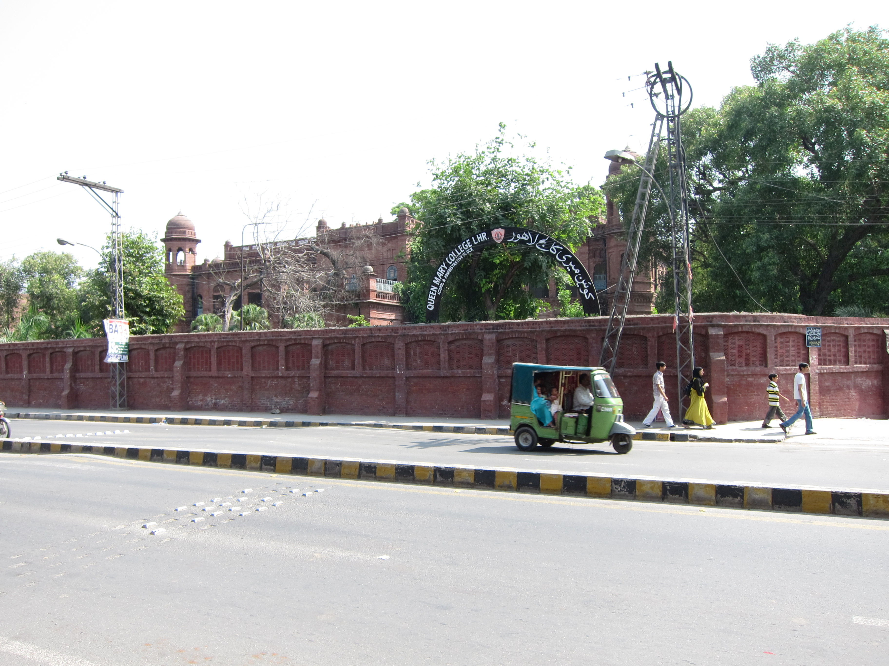 Queen Marry College This is a photo of a monument in Pakistan identified as the PB-P-89